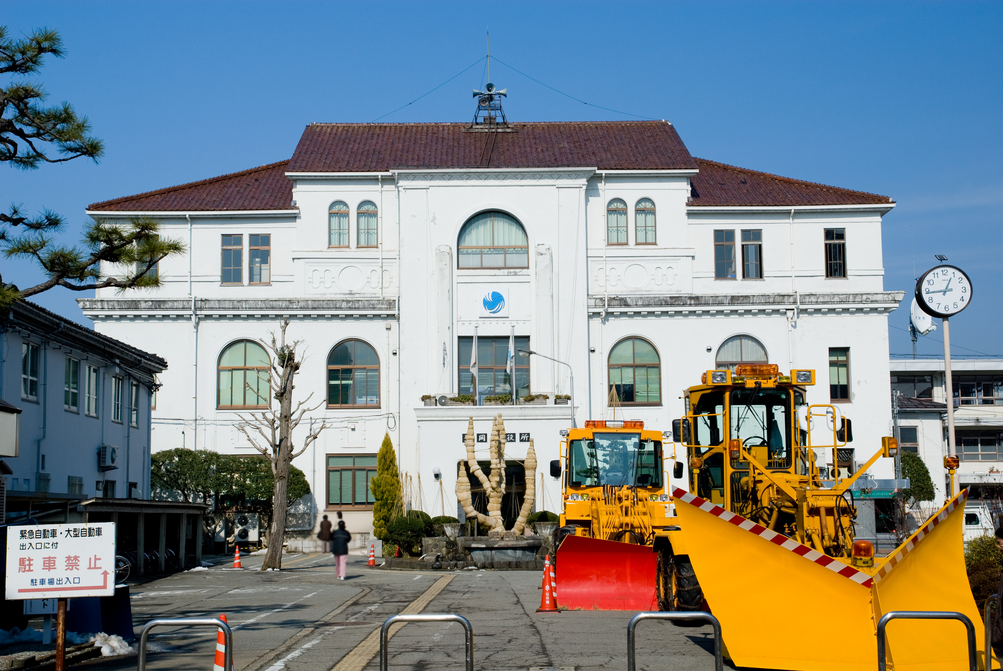 Toyooka City public office and main government building.